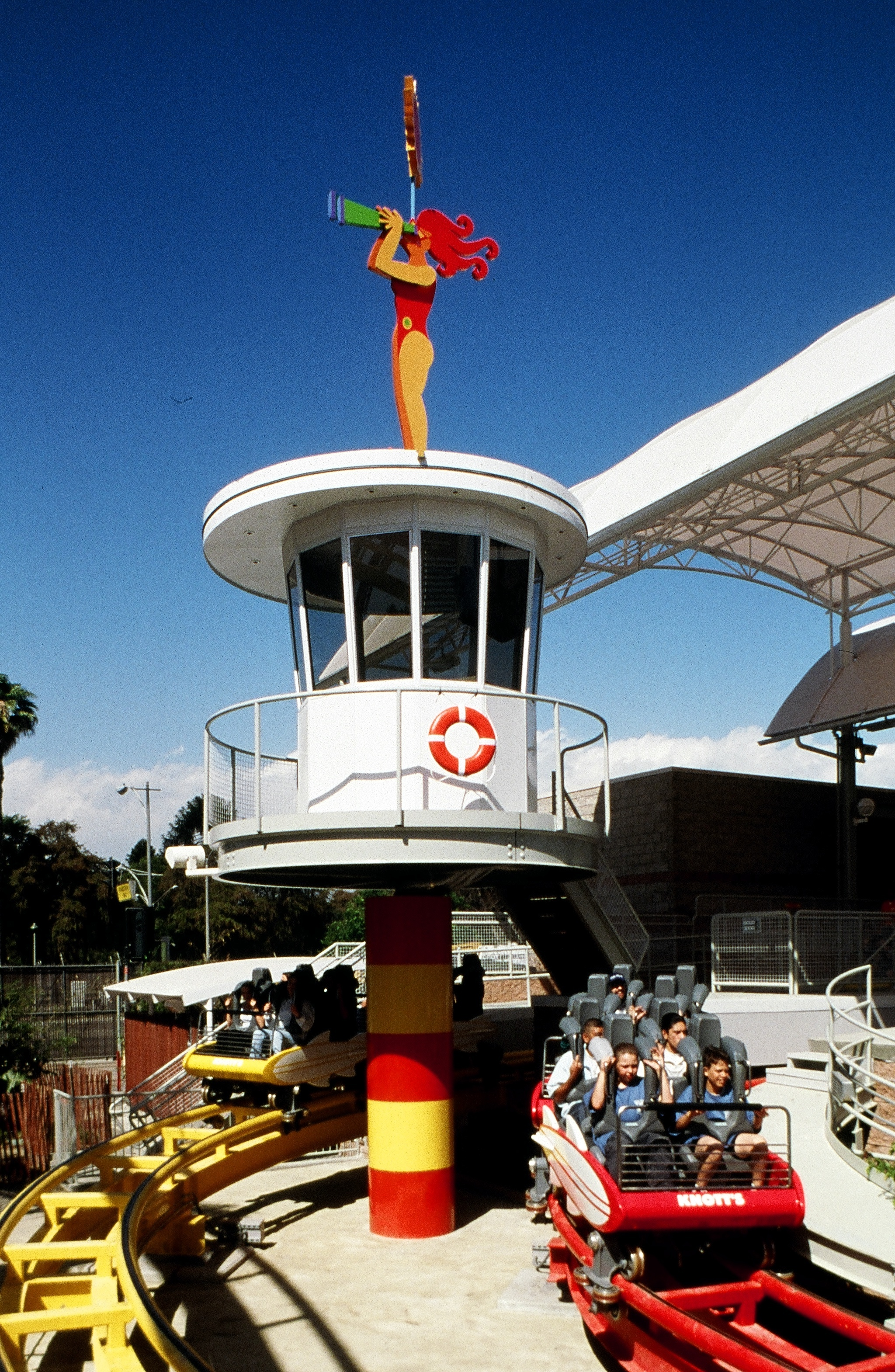 Windjammer Surf Racers at Knott's Berry Farm